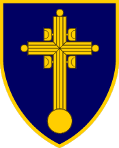 Small Coat of Arms of the city and municipality of Vracar in Belgrade, Serbia